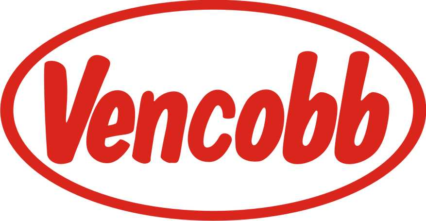 Vencobb Logo